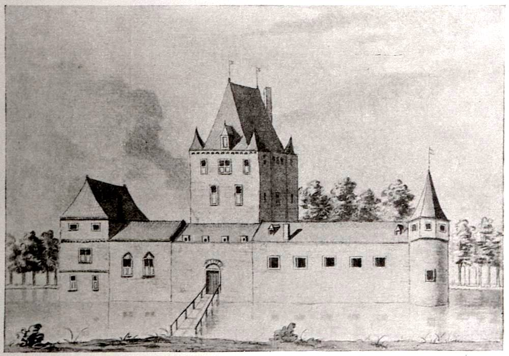 Castle Ter Horst, drawing by Louis Philippus Serrurier, ca. 1730